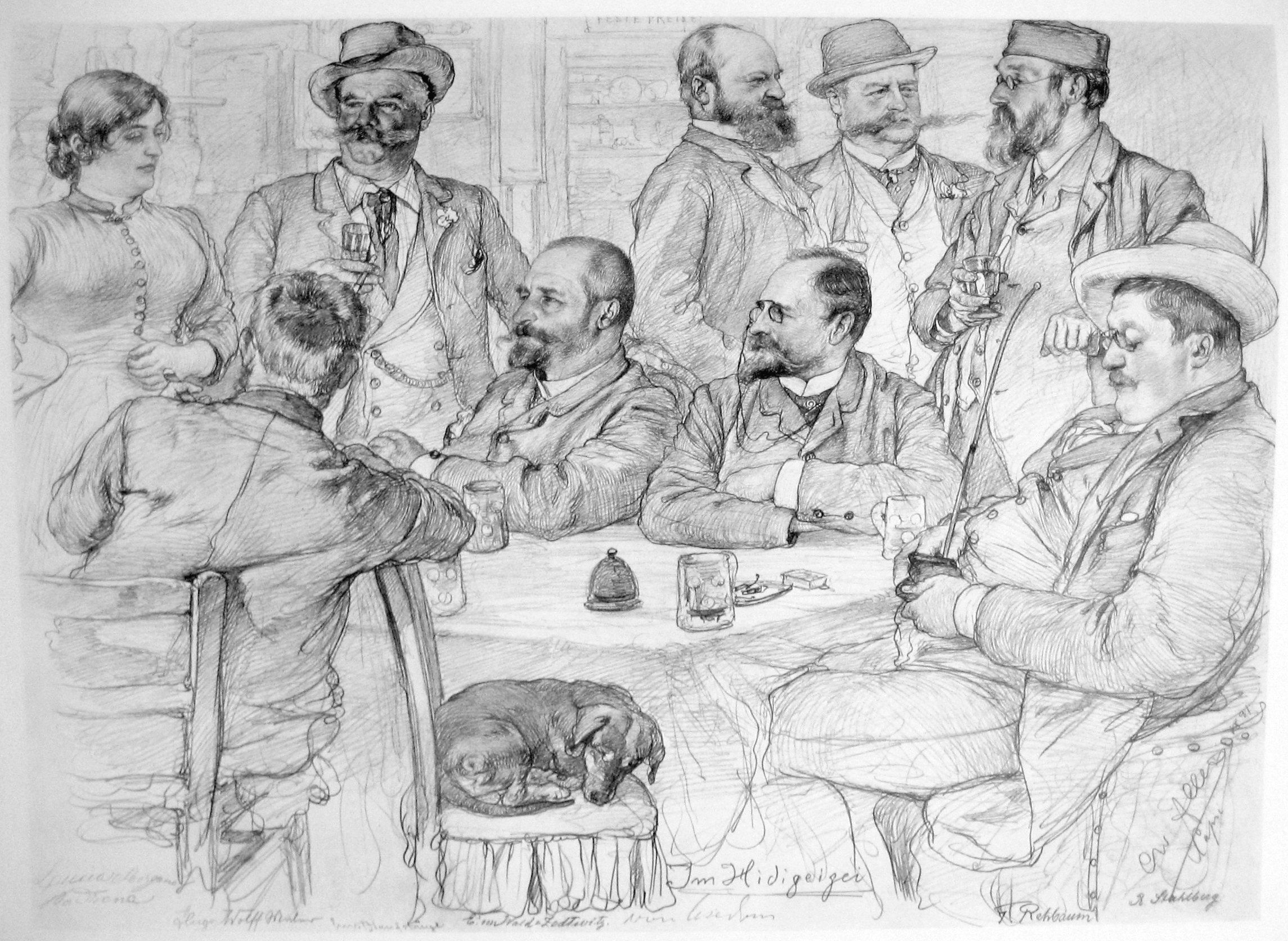 Guests of Café "Zum Kater Hiddigeigei", Capri